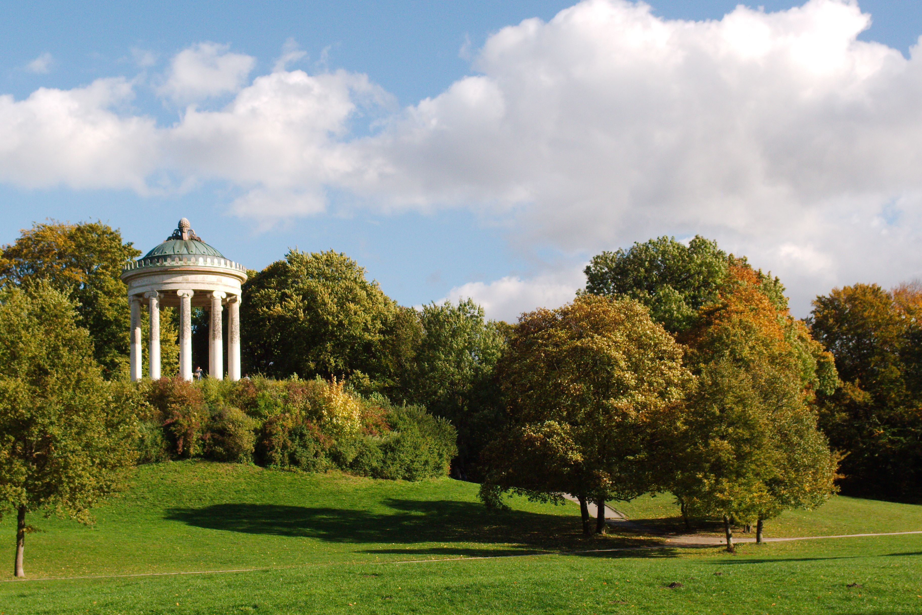 Munich, 2013